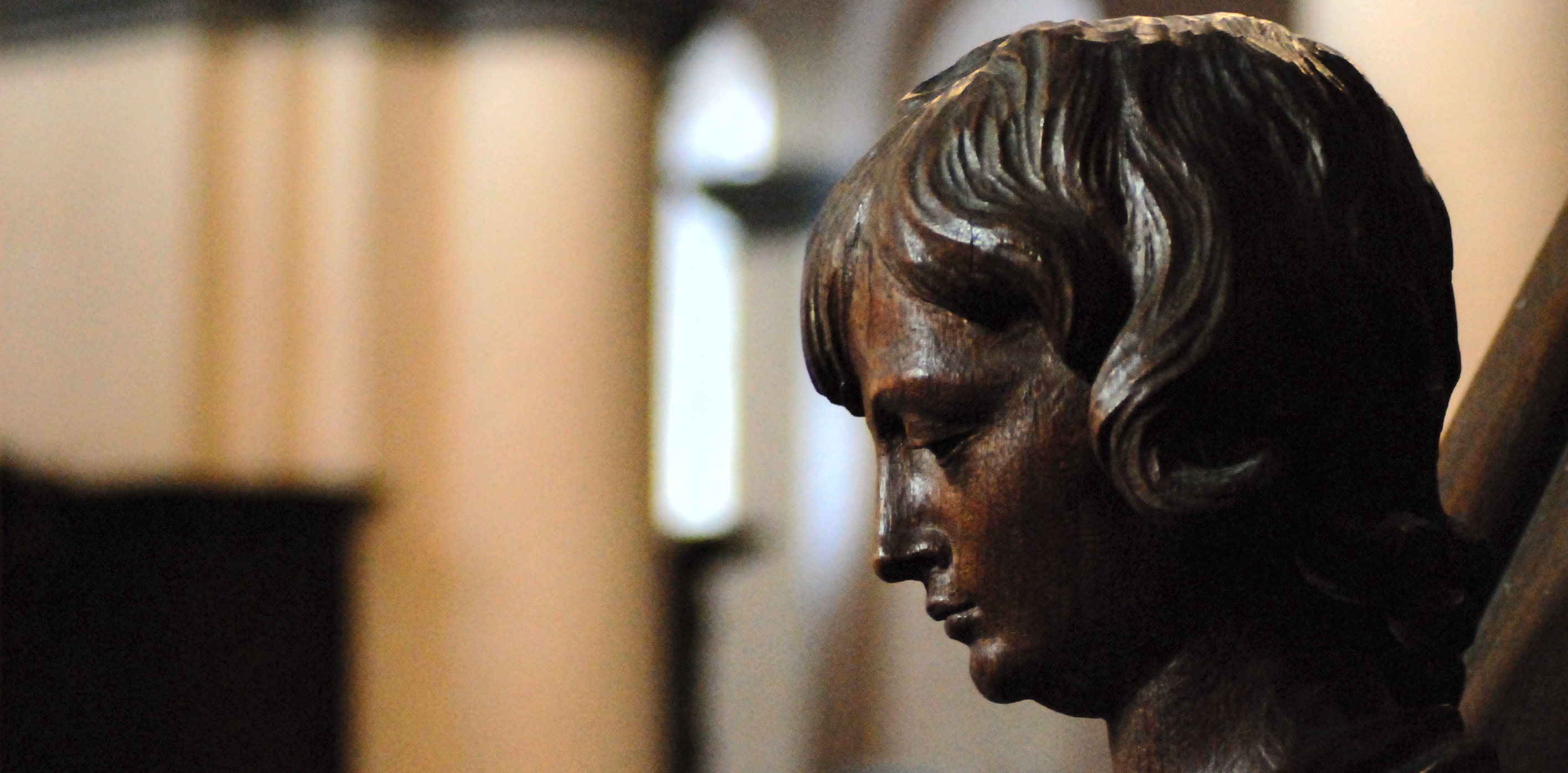 Chaire de vérité Collégiale Saint-Vincent Soignies